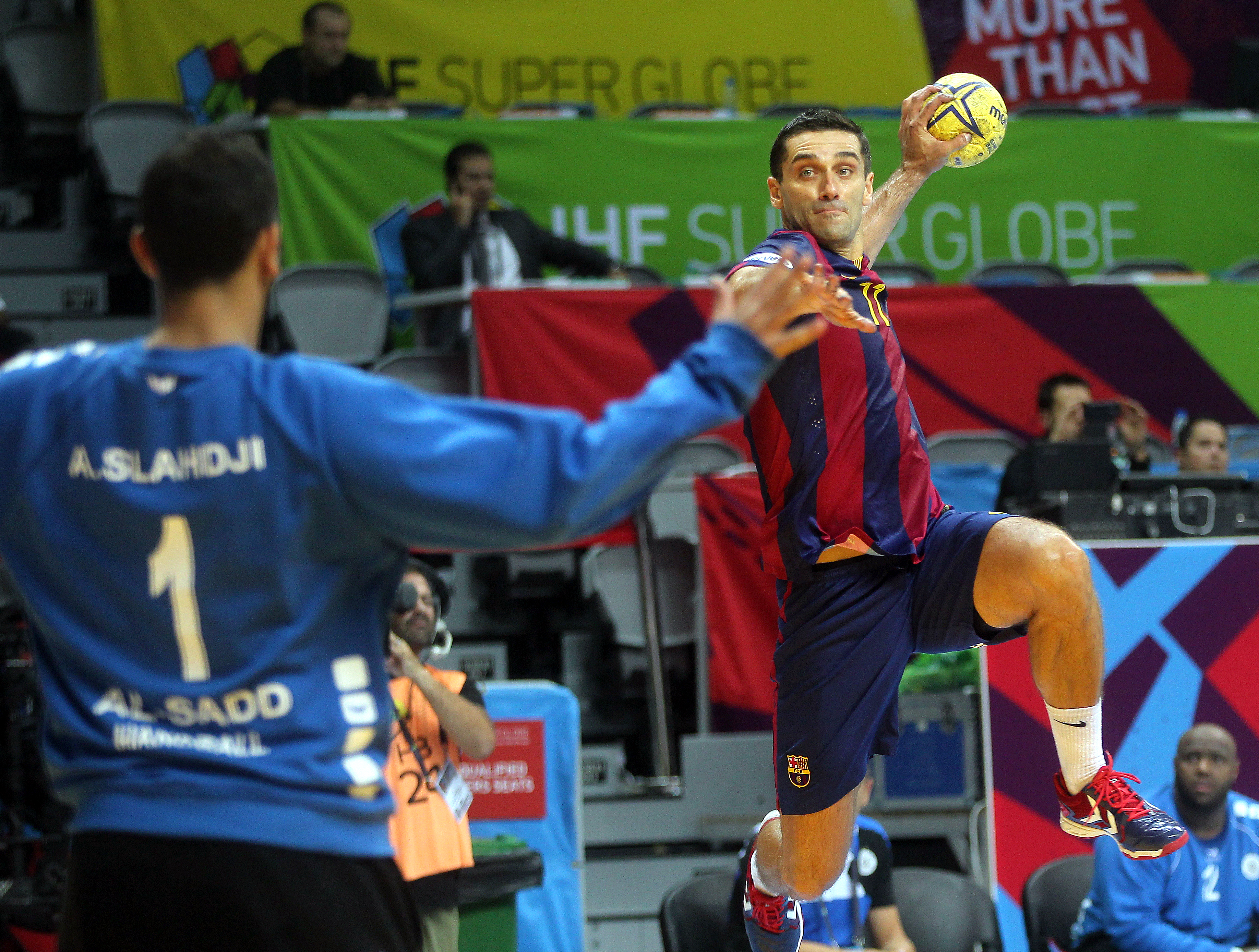 Barcelona's Kiril Lazarov is poised to score against Al Sadd in the IHF Super globe. Pic by Mohan